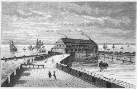 Batteriet Prøvestenen off Amager in Copenhagen, Denmark